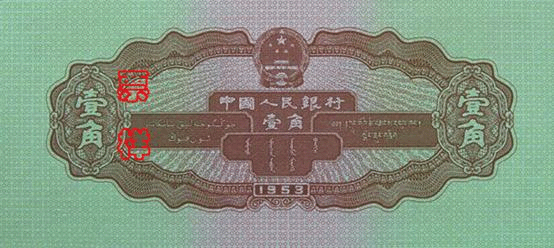 Back of second series 1 jiao renminbi